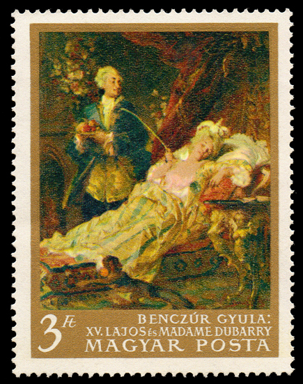 Paintings - Mme. Du Barry and Louis XV Denomination: 3 Forint